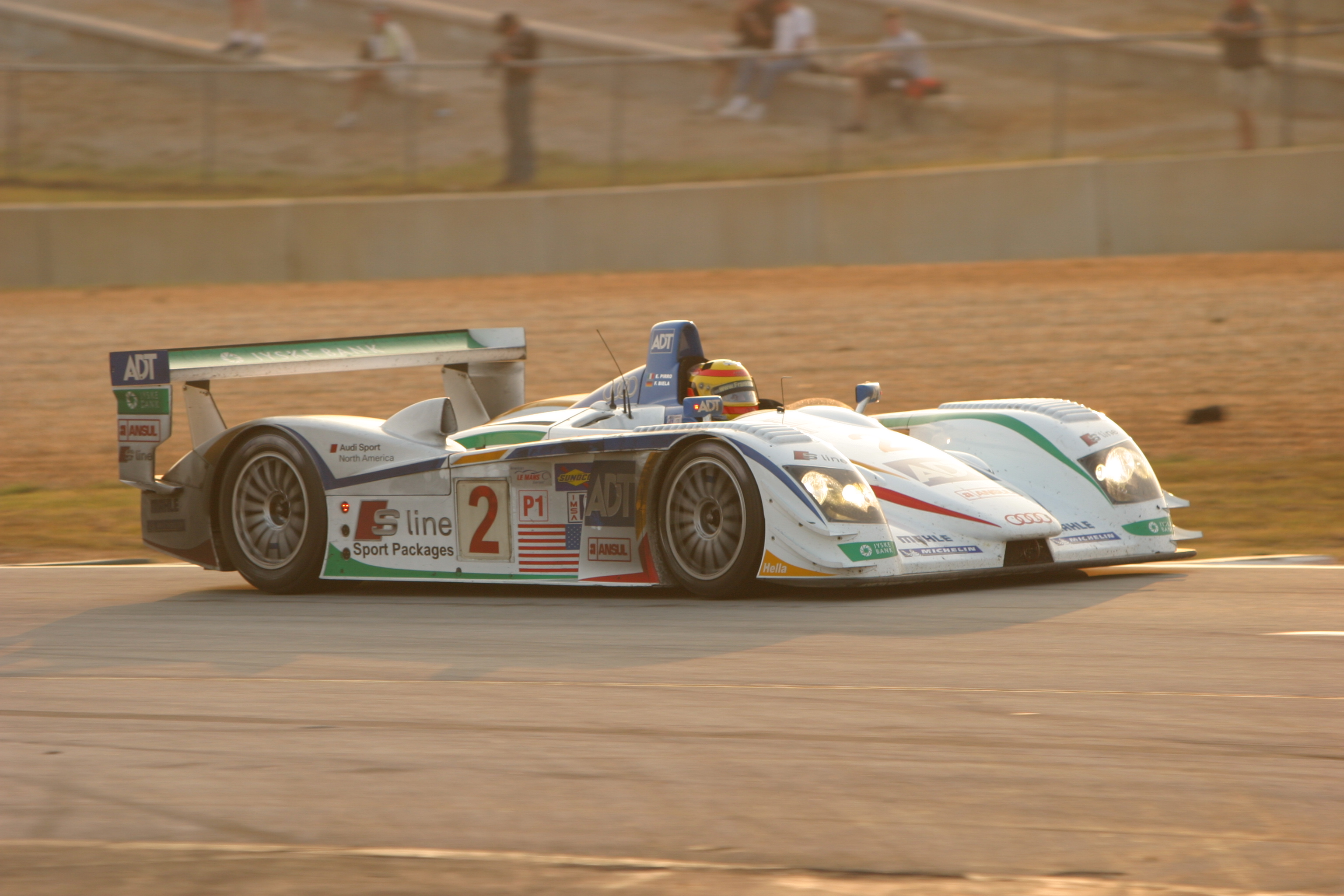 № 2 Audi R8 - LMP1 ADT Champion Racing Road Atlanta Petit Le Mans October 1, 2005 Round 9 American Le Mans Series Emanuele Pirro/Rome, Italy Frank Biela/Neuss, Germany (394 laps) - 1st place